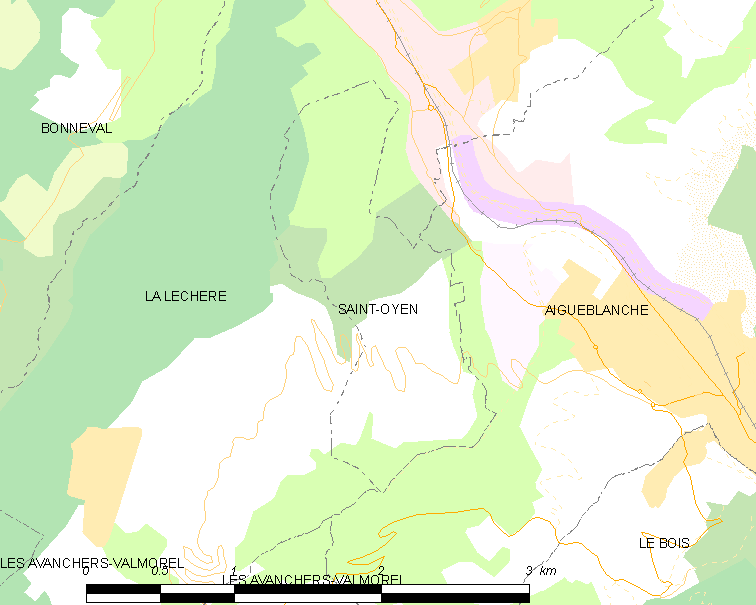 Map of French municipality Saint-Oyen